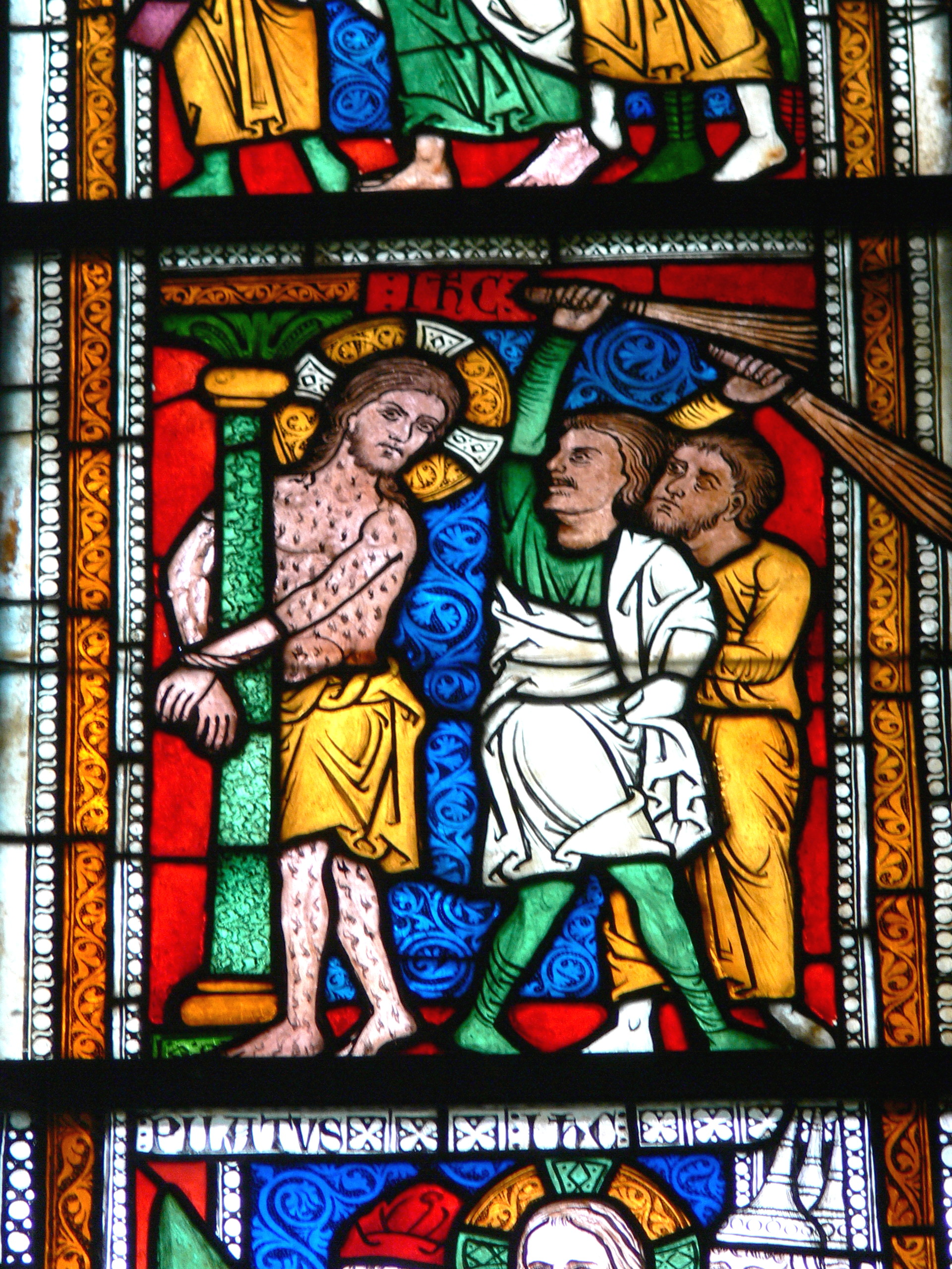 Dalhem Kyrka in Gotland. Stained glass windows ( 1900 ) : Flagellation of Christ , by C. Vilhelm Petterson. May contain a little early glass.